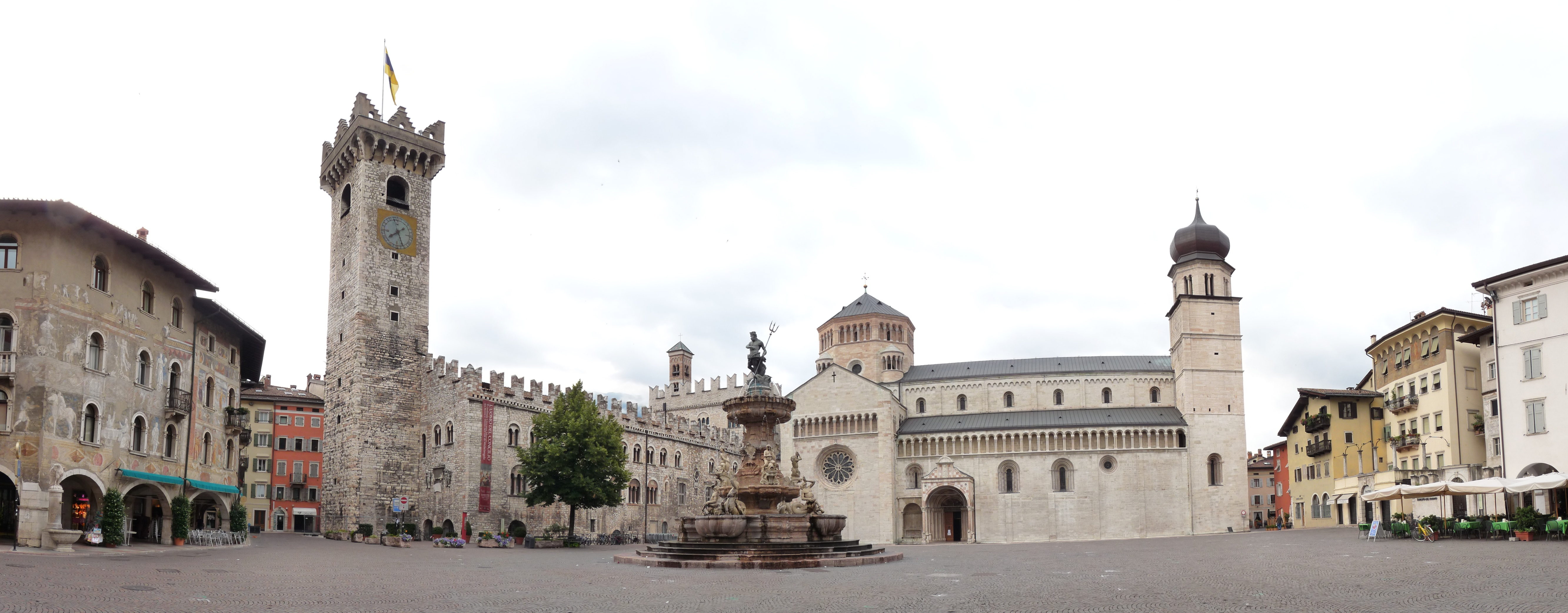 Trento (Italy): panorama of piazza del Duomo. From the left: the Cazuffi-Rella houses, with the fountain of the Eagle, Torre Civica (Civic Tower, a bell tower), Palazzo Pretorio, Castelletto del Vescovo with the church tower of Saint Romedio, the fountain of Nettuno and the cathedral of Saint Vigilius.